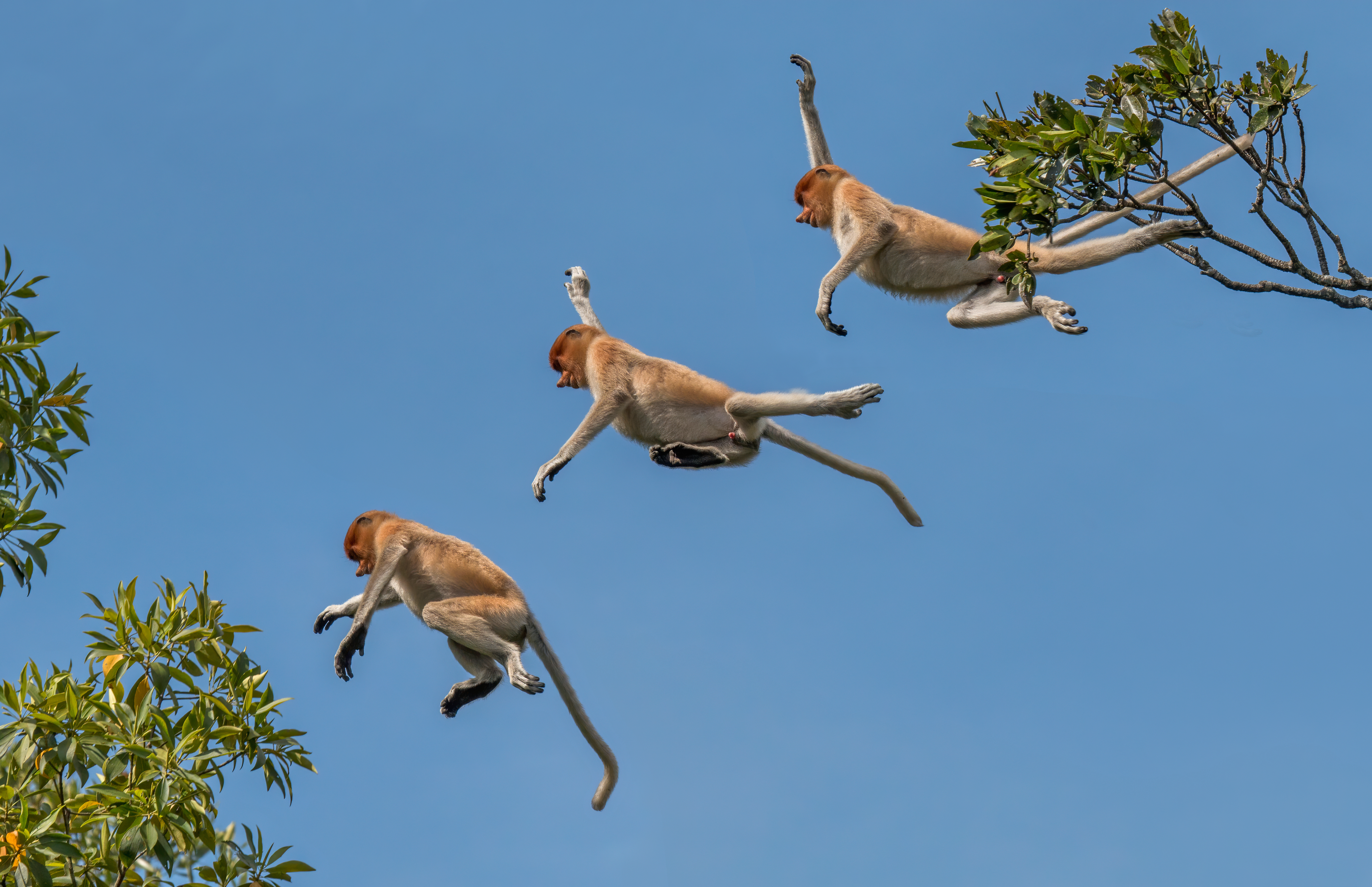 Young male proboscis monkey (Nasalis larvatus) composite image from three photographs, Labuk Bay, Sabah, Borneo, Malaysia